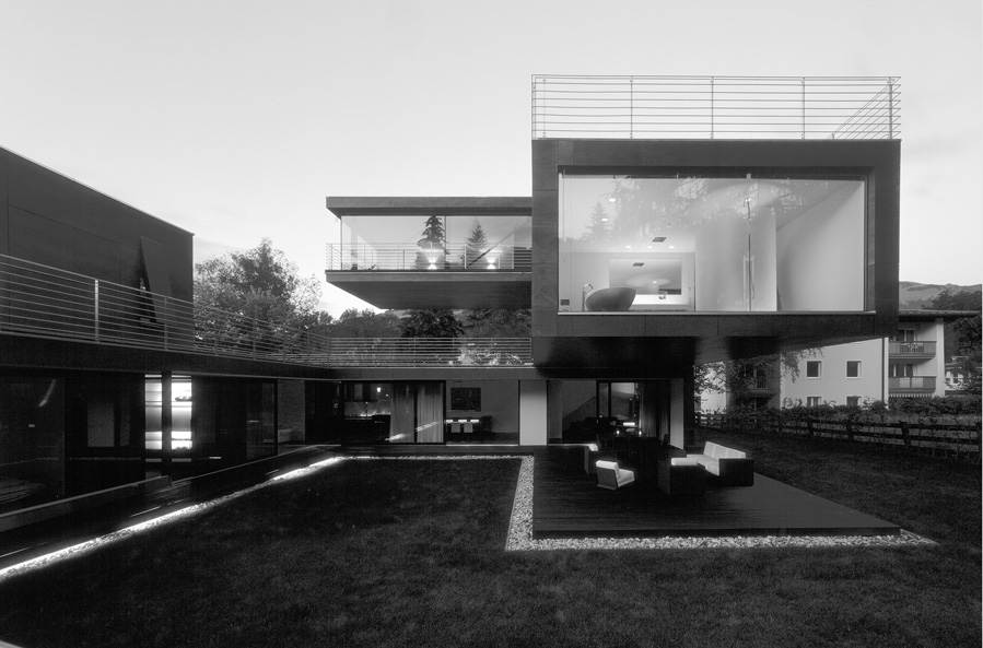 This picture shows a modern alpine house in Kitzbühl, Austria, designed by Lechner & Lechner architects, Priesterhausgasse 18, 5020 Salzburg